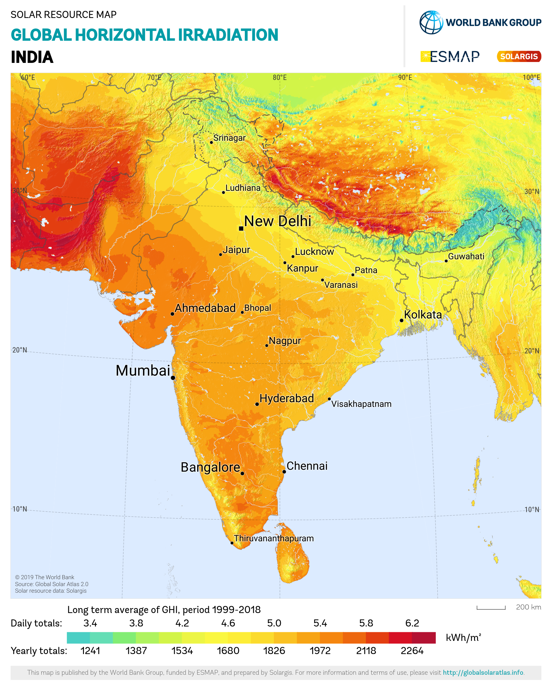 Global Horizontal Irradiation of India